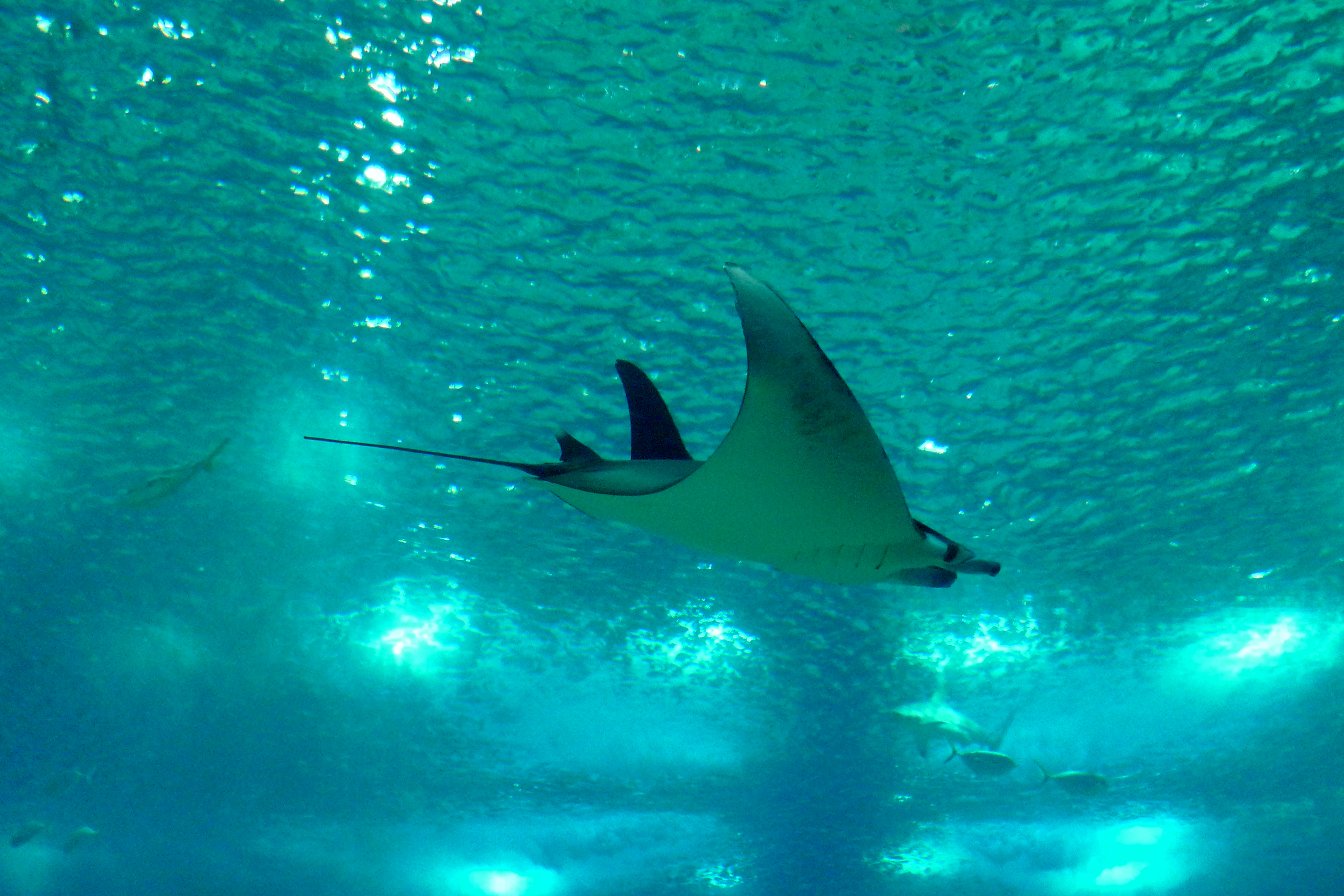 Atlantic mobula (Mobula mobular) at the Lisbon Oceanarium